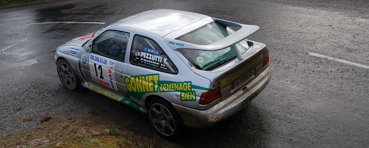 Rallycar Ford Escort RS Cosworth